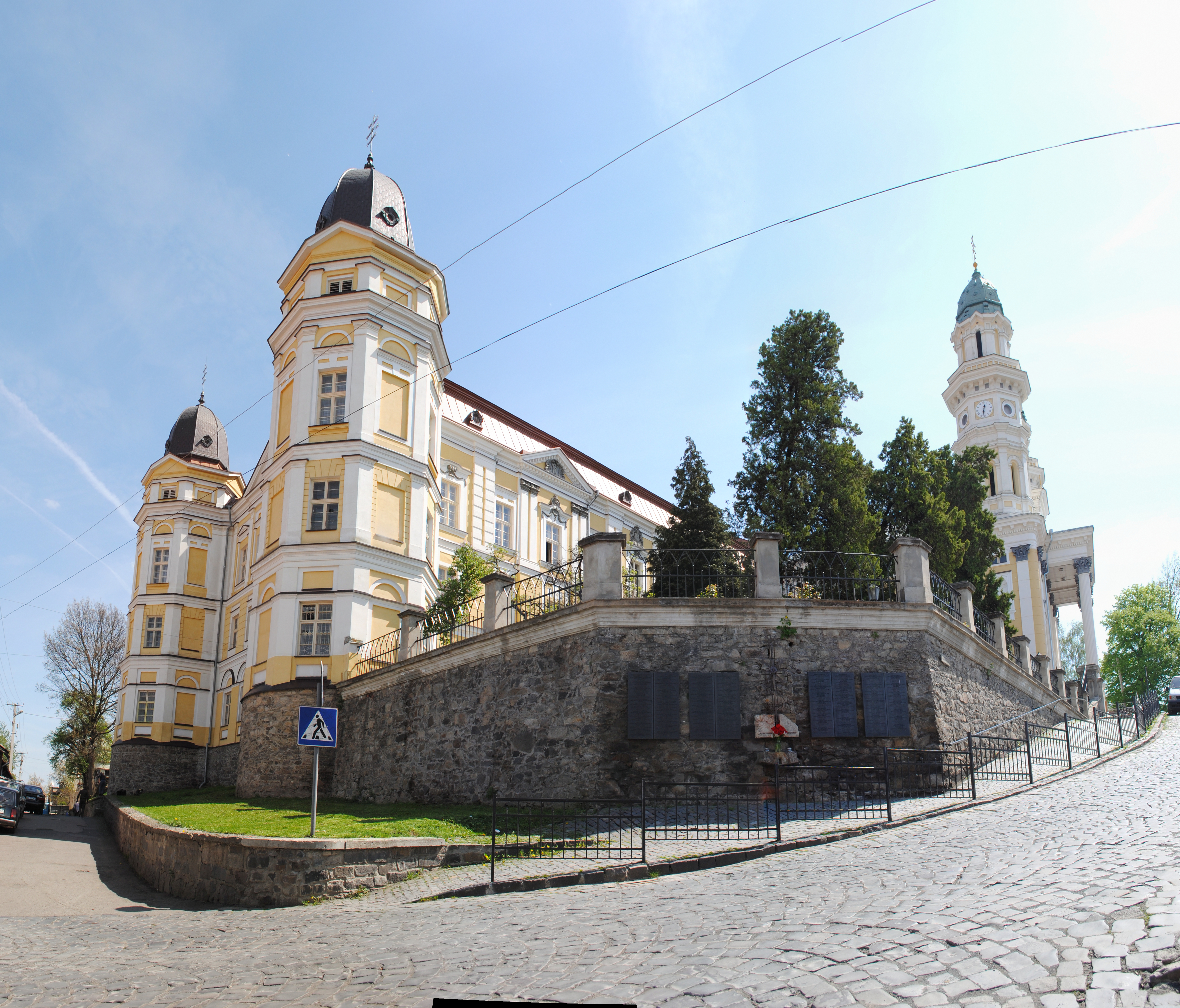 Bishops residence, Uzhhorod